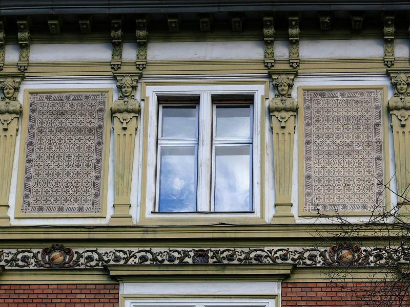 The Rottenbiller Street in Budapest